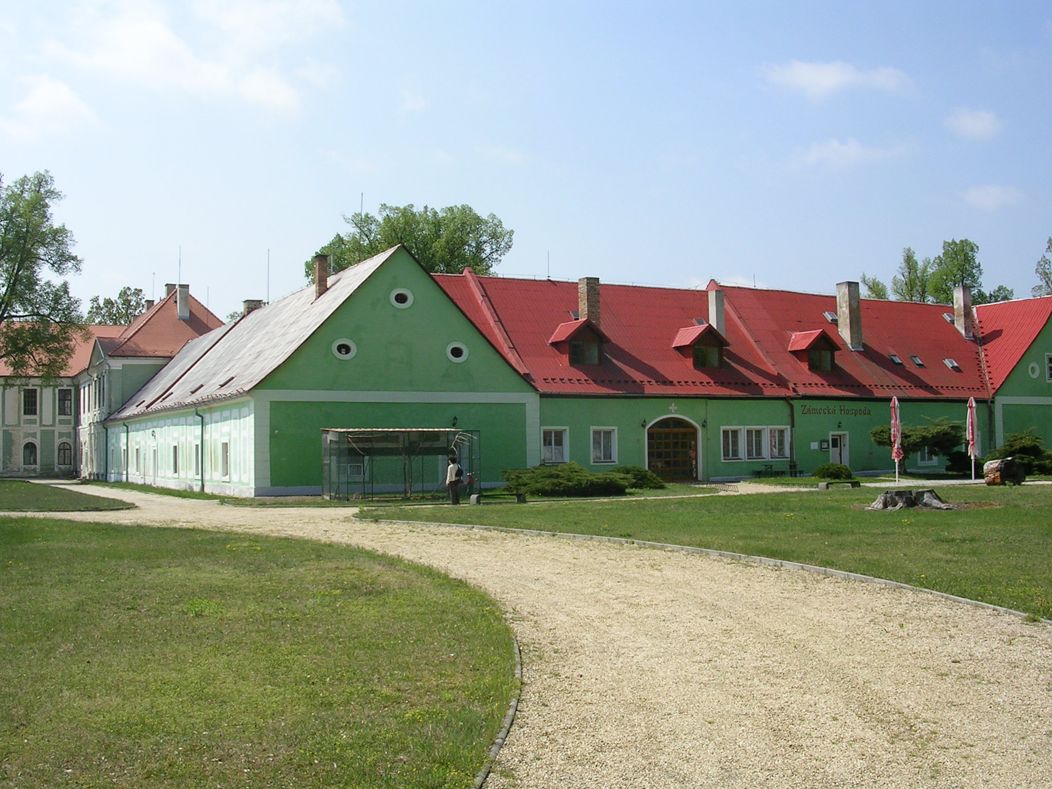 Hatín-Jemčina, South Bohemian Region, the Czech Republic.